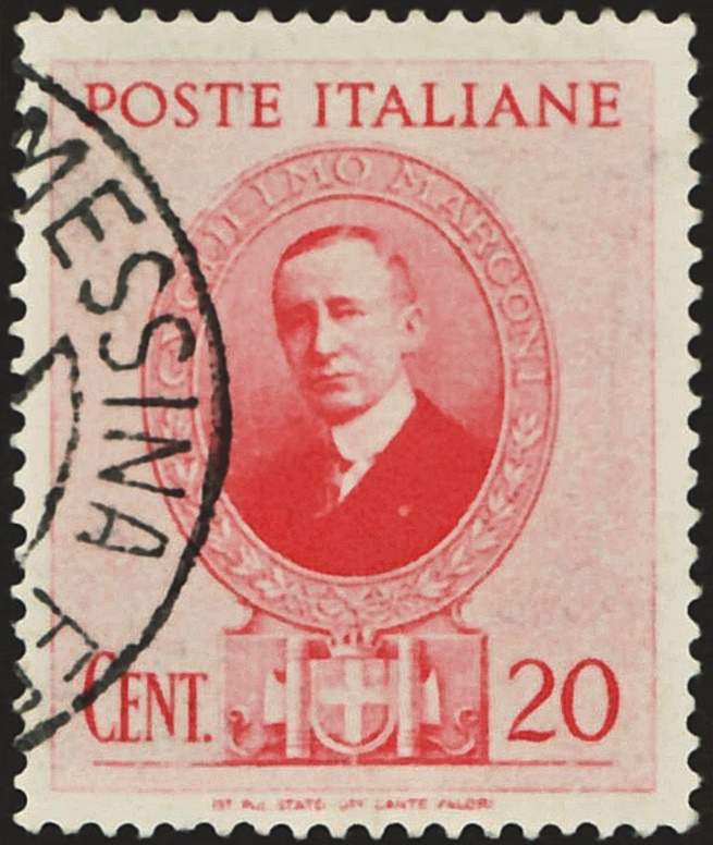 Stamp of the Kingdom of Italy; 1938; commemorative stamp of the issue for Guglielmo Marconi (He deed on the 20th of July, 1937.; Original title of the series "Celebrativo di Guglielmo Marconi"); Stamp drawing with an framed effigy of Guglielmo Marconi in a standing oval on a pedestal ornamented with the coat of arms of Savoy between two lateral Fasces; name as upper ornament in the oval frame; stamp postmarked Stamp: Michel: No. 601; Yvert & Tellier: No. 416; Scott: No. 397 Color: rosy / red Watermark: Italy No. 1 (crown) Nominal value: 20 cent. (Centesimi) Postage validity: from 24 January 1938 until 31 October 1938 Stamp picture size (printed area without below names line): 23.0 x 27.5 mm